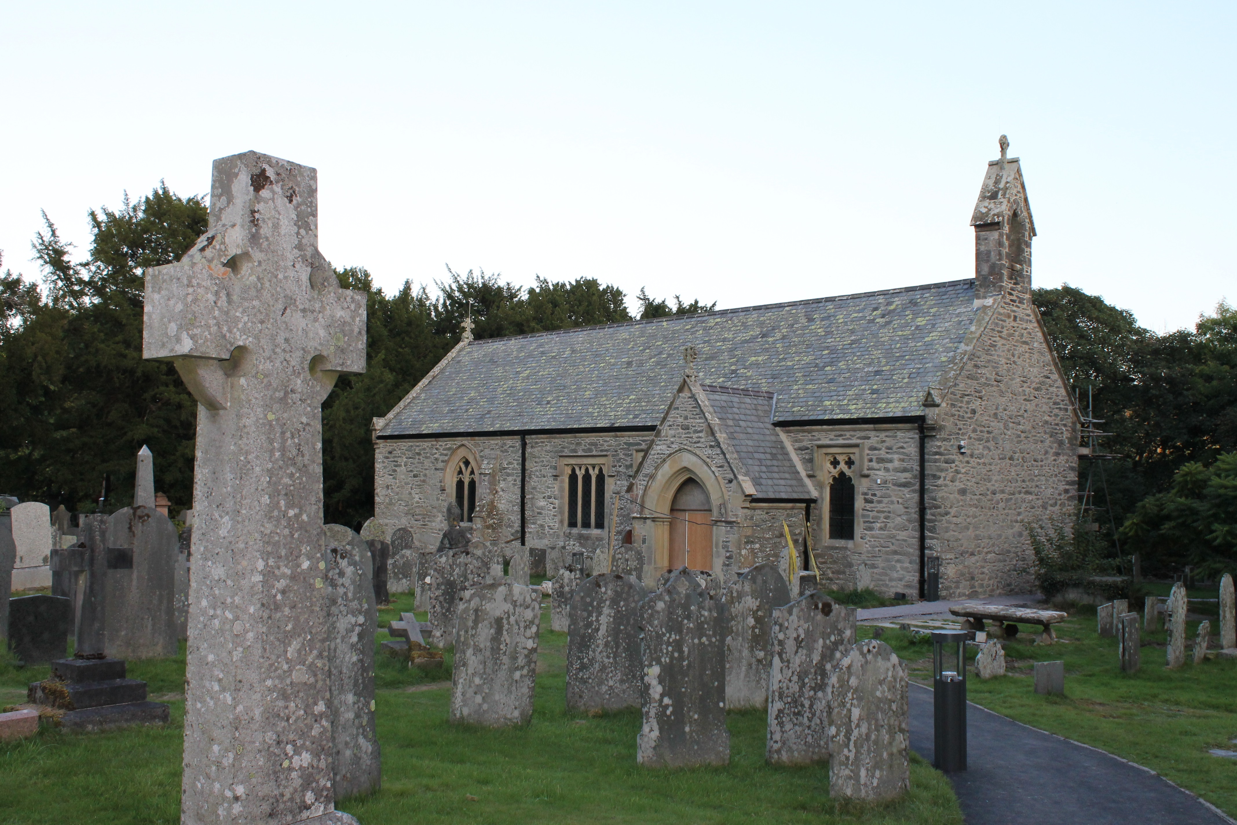 Parish Church of St Beuno, Llanycil, Gwynedd, on the shore of Llyn Tegid (Bala Lake). Church closed it's doors in the 2010s.